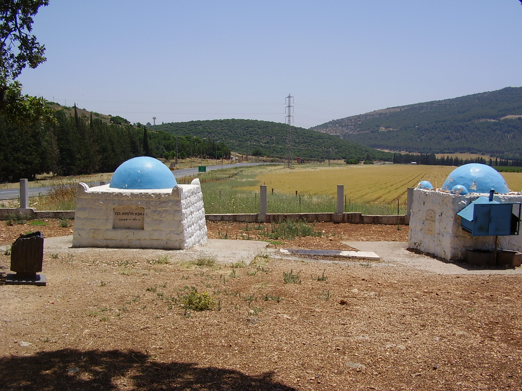 aba chalafta grave, lower galilee